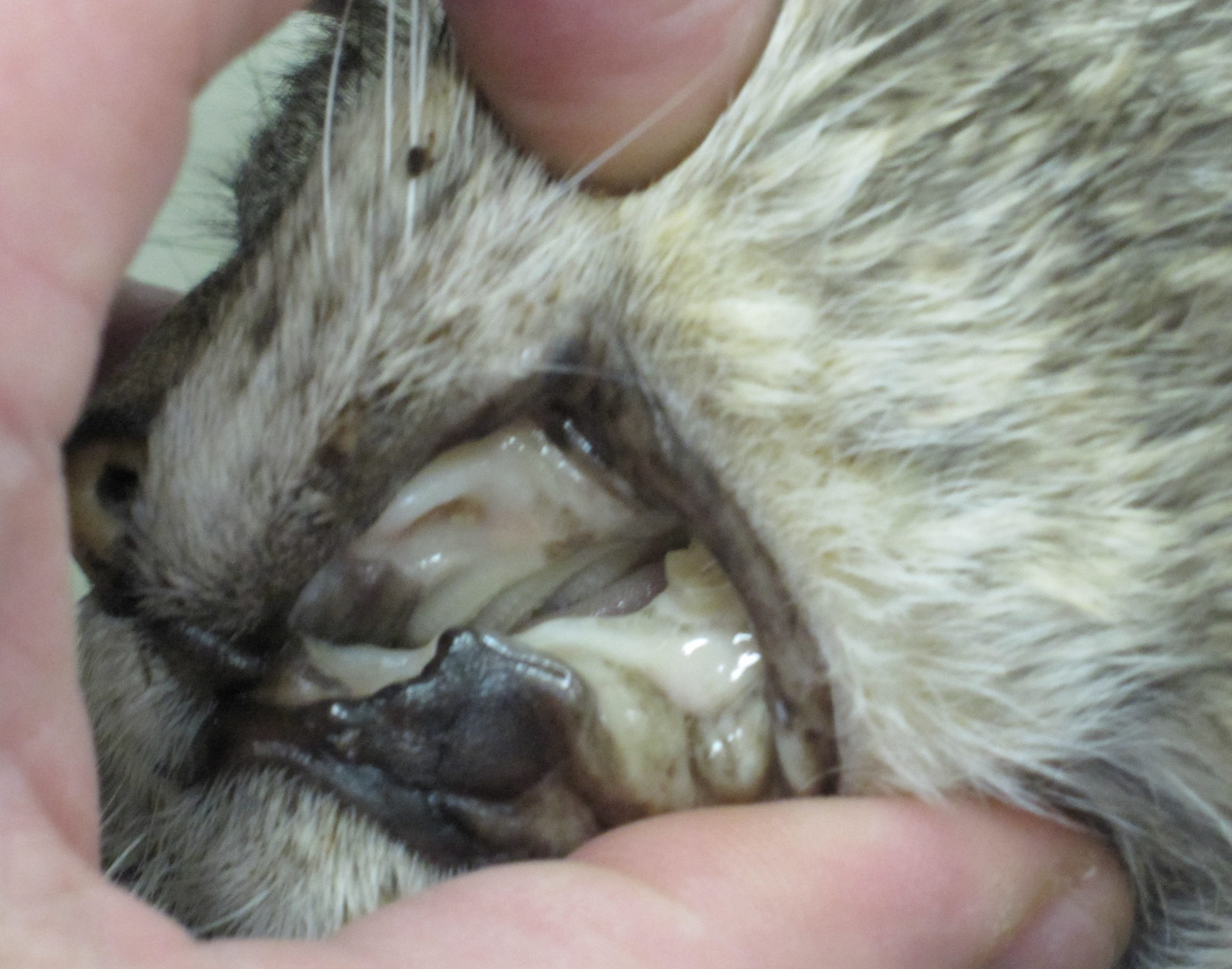 pale mucous membranes due to anemia in a cat with feline leukemia